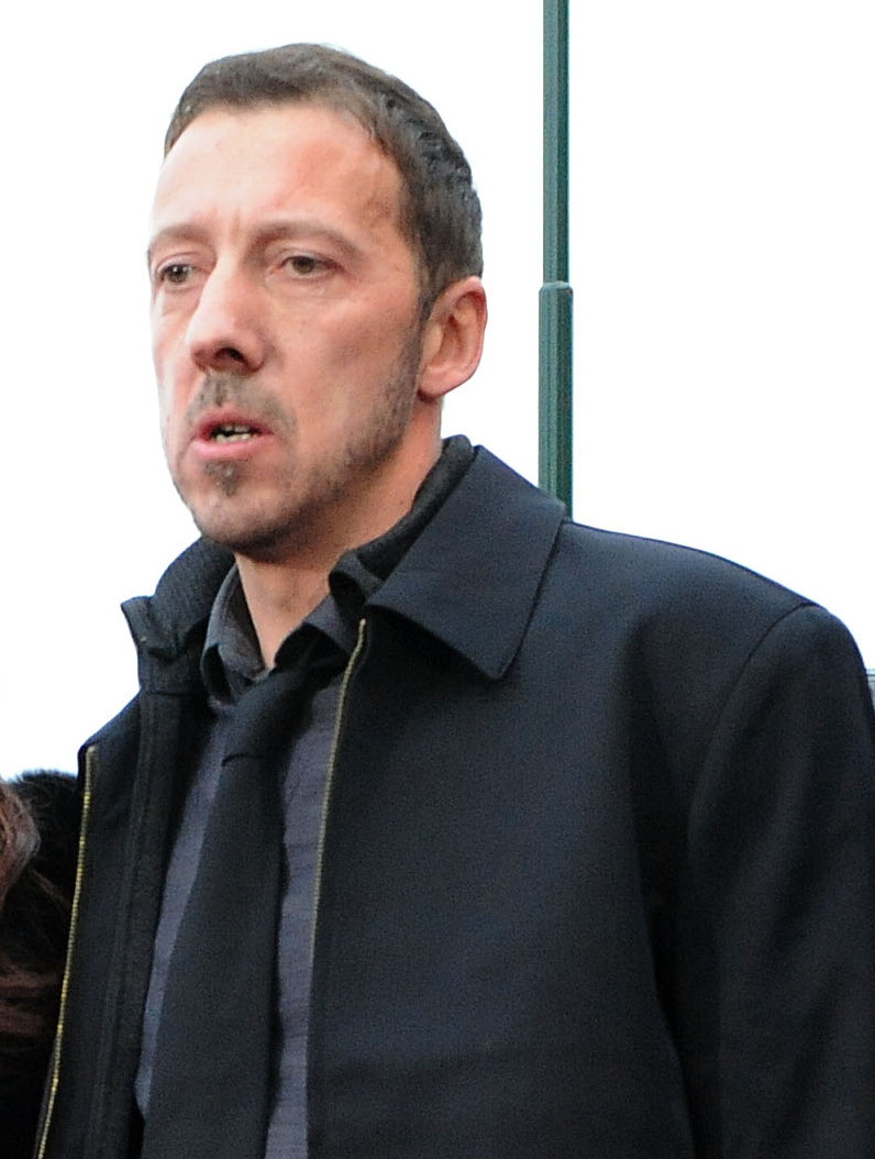 James Peck, Argentine citizen born in the Malvinas Islands, with President Cristina Fernández de Kirchner after getting his DNI (National Identity Document)